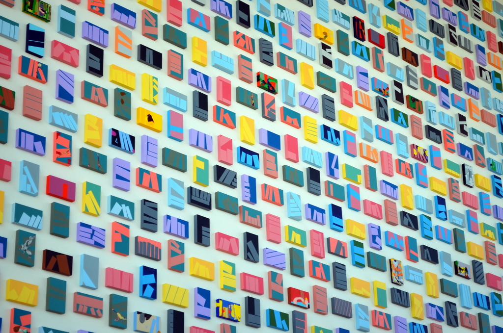 Part of the artwork, entitled "Book Shelf Paintings", on the top floor of the Halifax Central Library. The full artwork comprises 1,000 paintings.